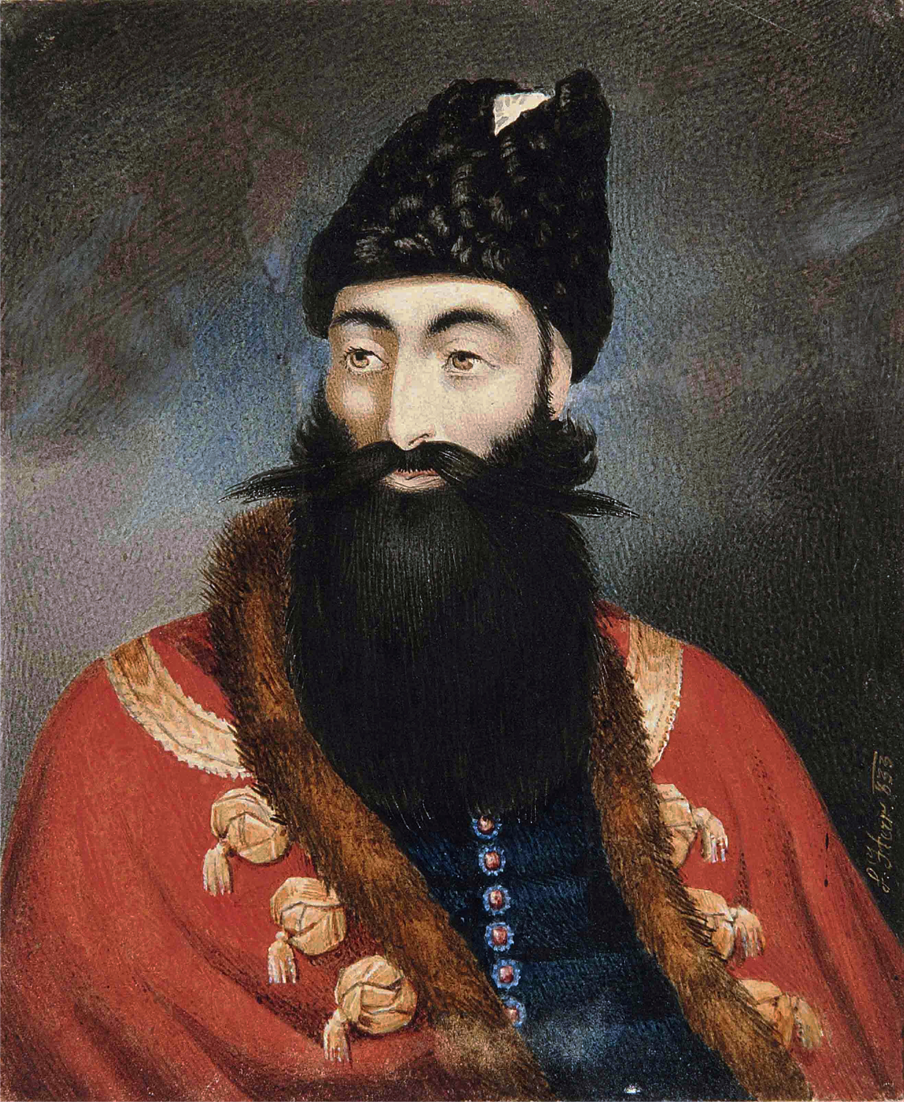 Watercolour on paper, depicted half length, signed L. Herr, Dated (1)833 along the right hand side edge, mounted on card 5¾ x 4¾in. (14.7 x 12.1cm.)